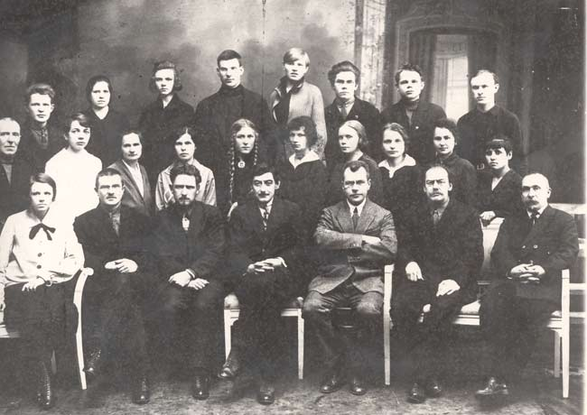 Vasily Gippius between a students and lecturers in Perm University